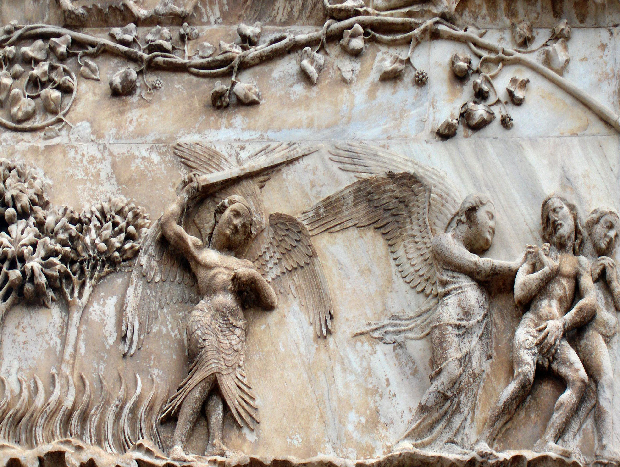 Genesis : Expulsion from Paradise; marble bas-relief by Lorenzo Maitani on the left pier of the façade of the cathedral; Orvieto, Italy